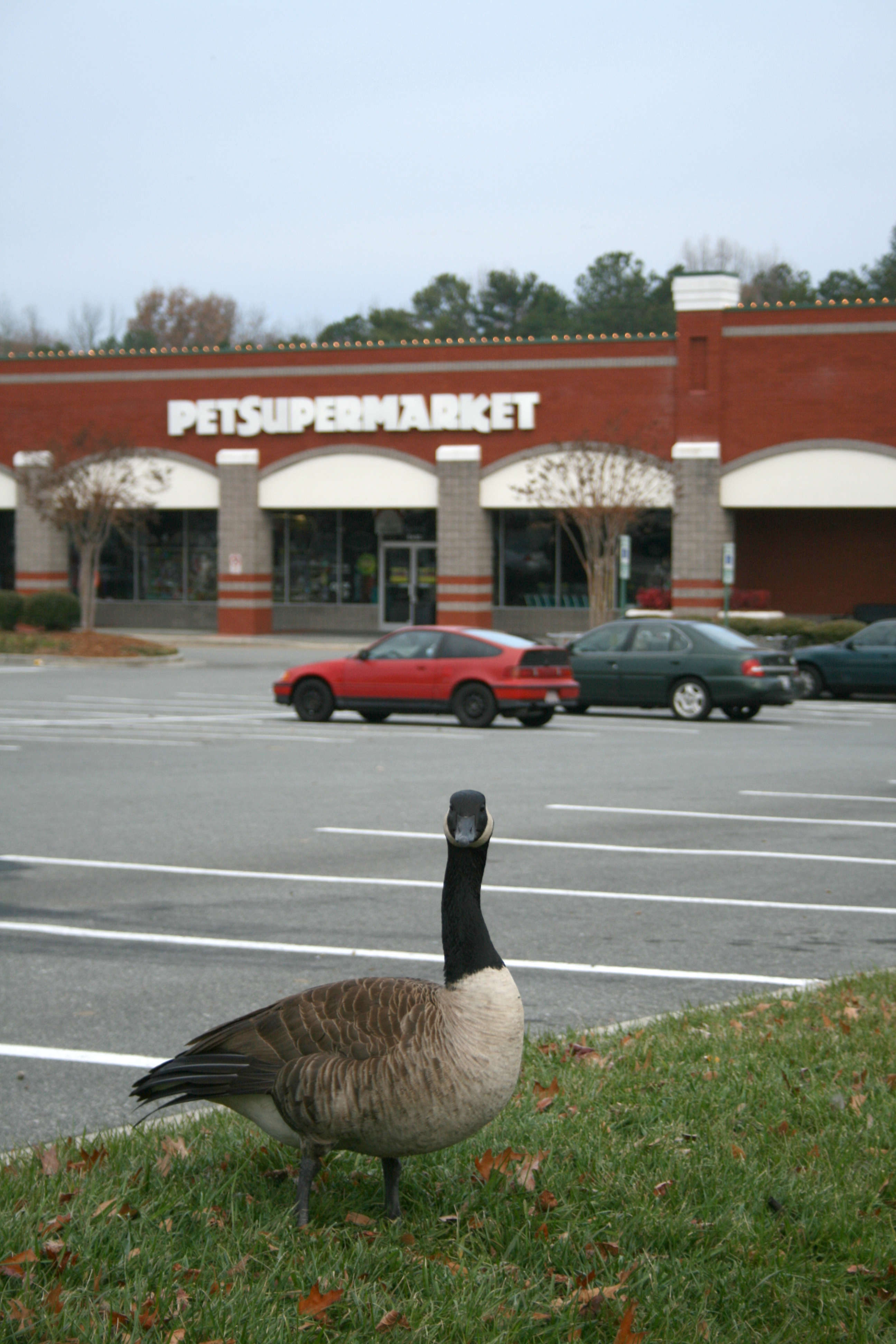 A Canada Goose (Branta canadensis) at New Hope Commons, with Pet Supermarket in the background, in Durham, North Carolina.